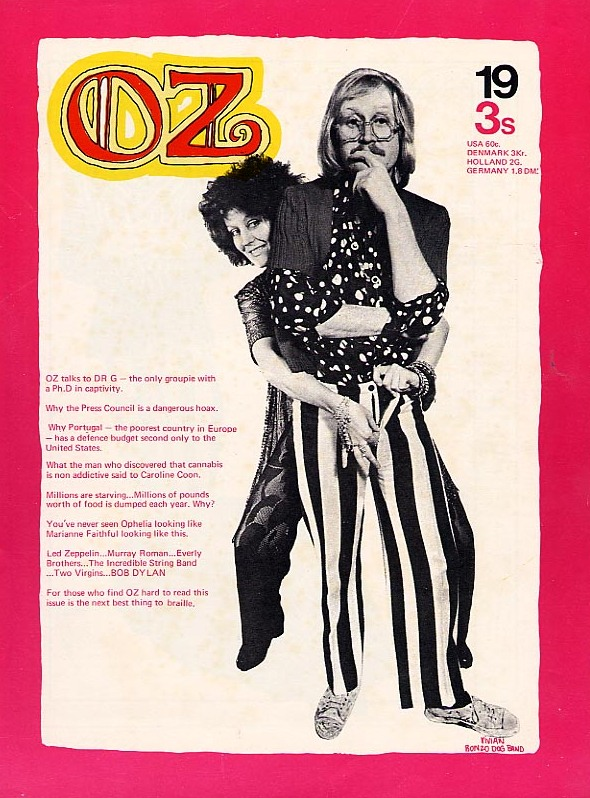 Issue 19 of OZ magazine in the UK, early 1969, showing Germaine Greer and Vivian Stanshall of the Bonzo Dog Doo-Dah Band